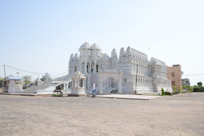 Shri Bhandavpur Tirth Photo